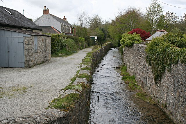 The River Kennall near Foundry, Stithians. This area of Stithians village is known as Foundry, a term which probably implies there was some degree of industrial activity in the past. The water from this river would very likely have powered it.